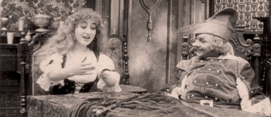 Low resolution image of a scene from Robin Hood, 1912.